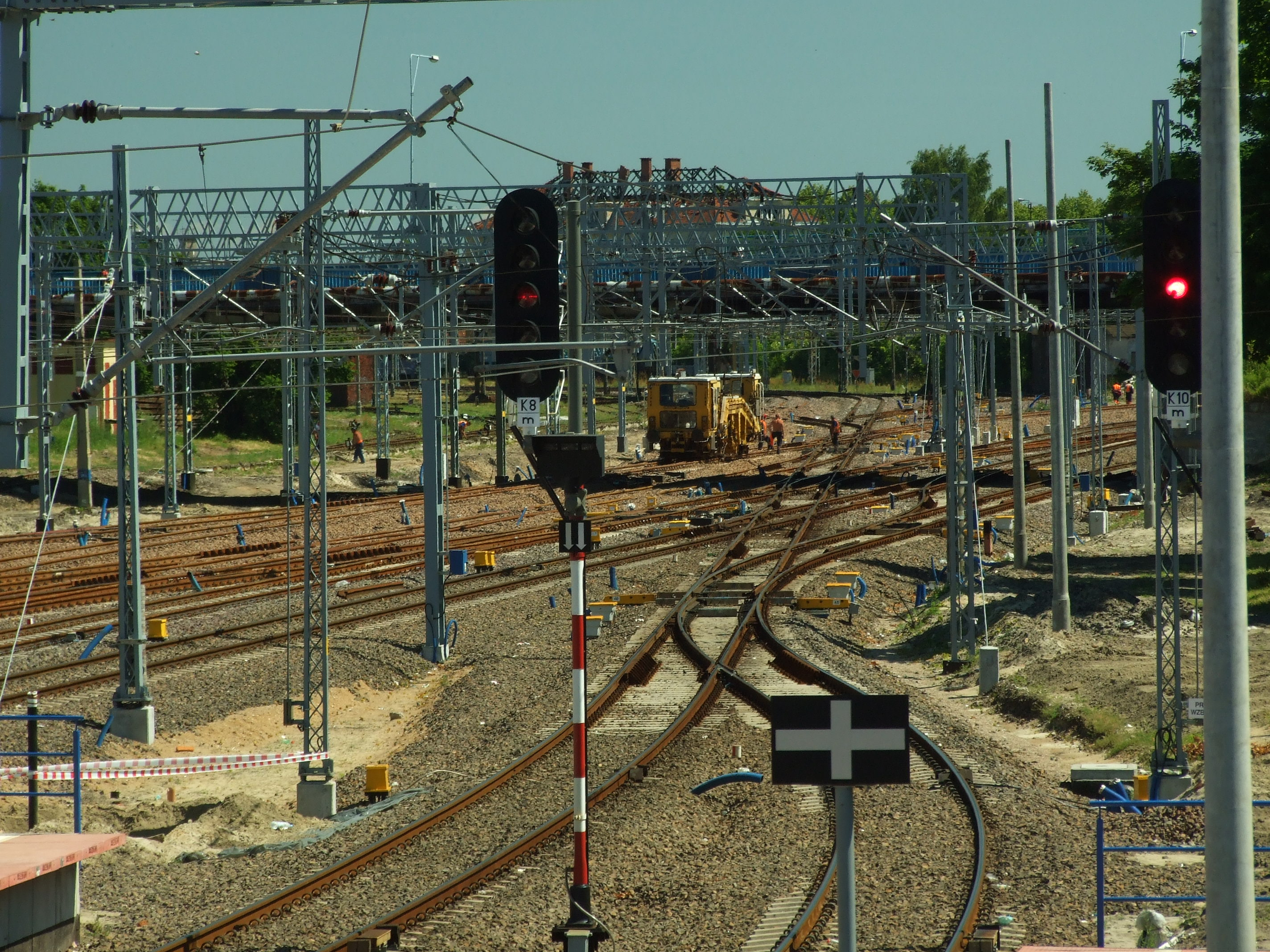 Rail hub Tczew - reconstruction of the main track from local main station towards Vistula bridges (east) and other tracks for southern Poland. Pomeranian voivodeship